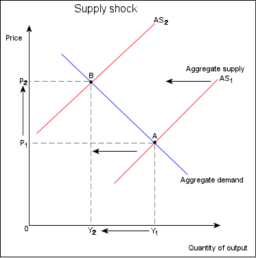 Diagram of the effects of a supply shock on price and quantity